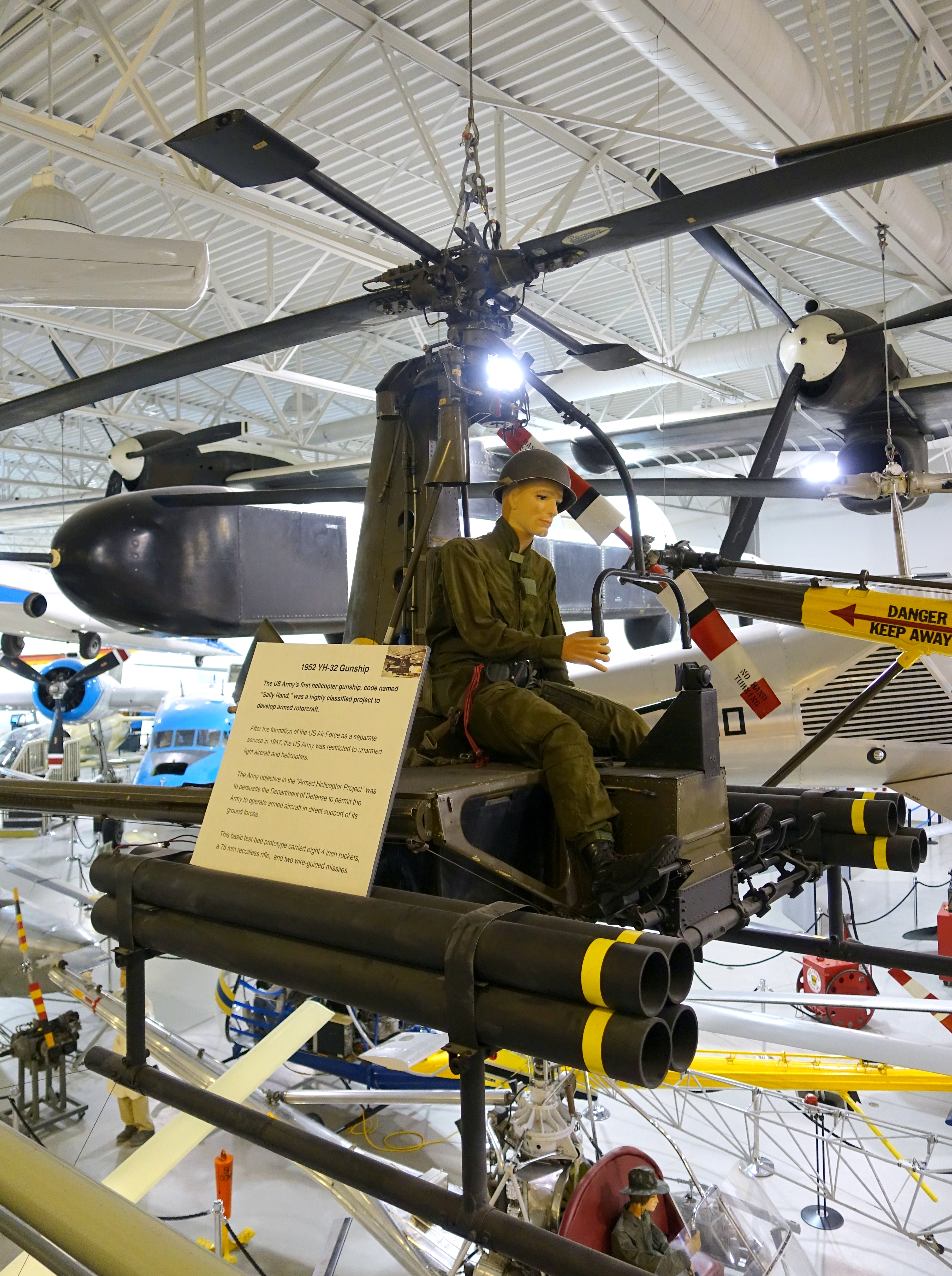 Exhibit in the Hiller Aviation Museum, San Carlos, California, USA.